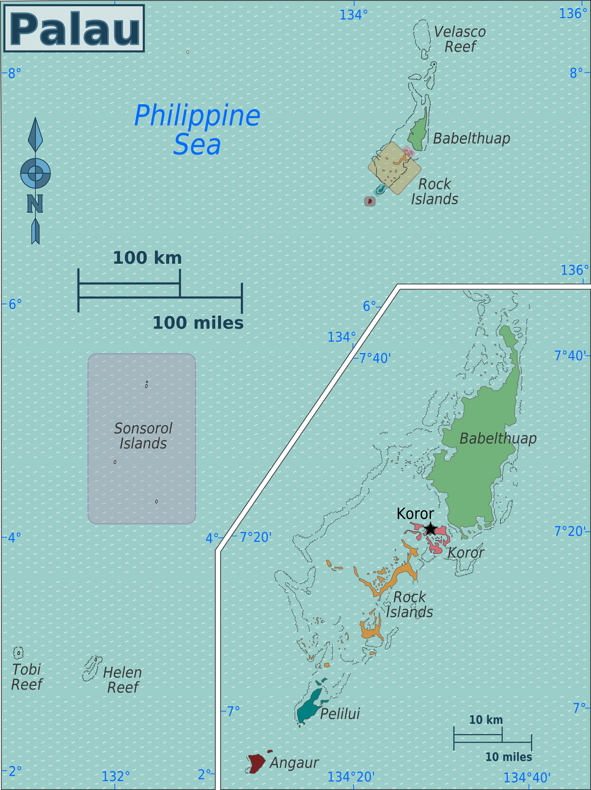 Map of Palau for use on Wikivoyage, English version